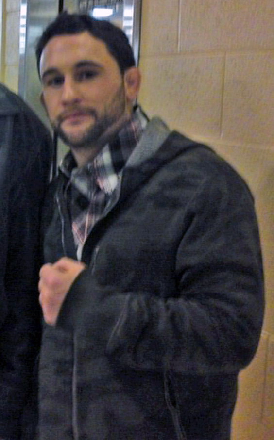 Frankie Edgar at UFN 20